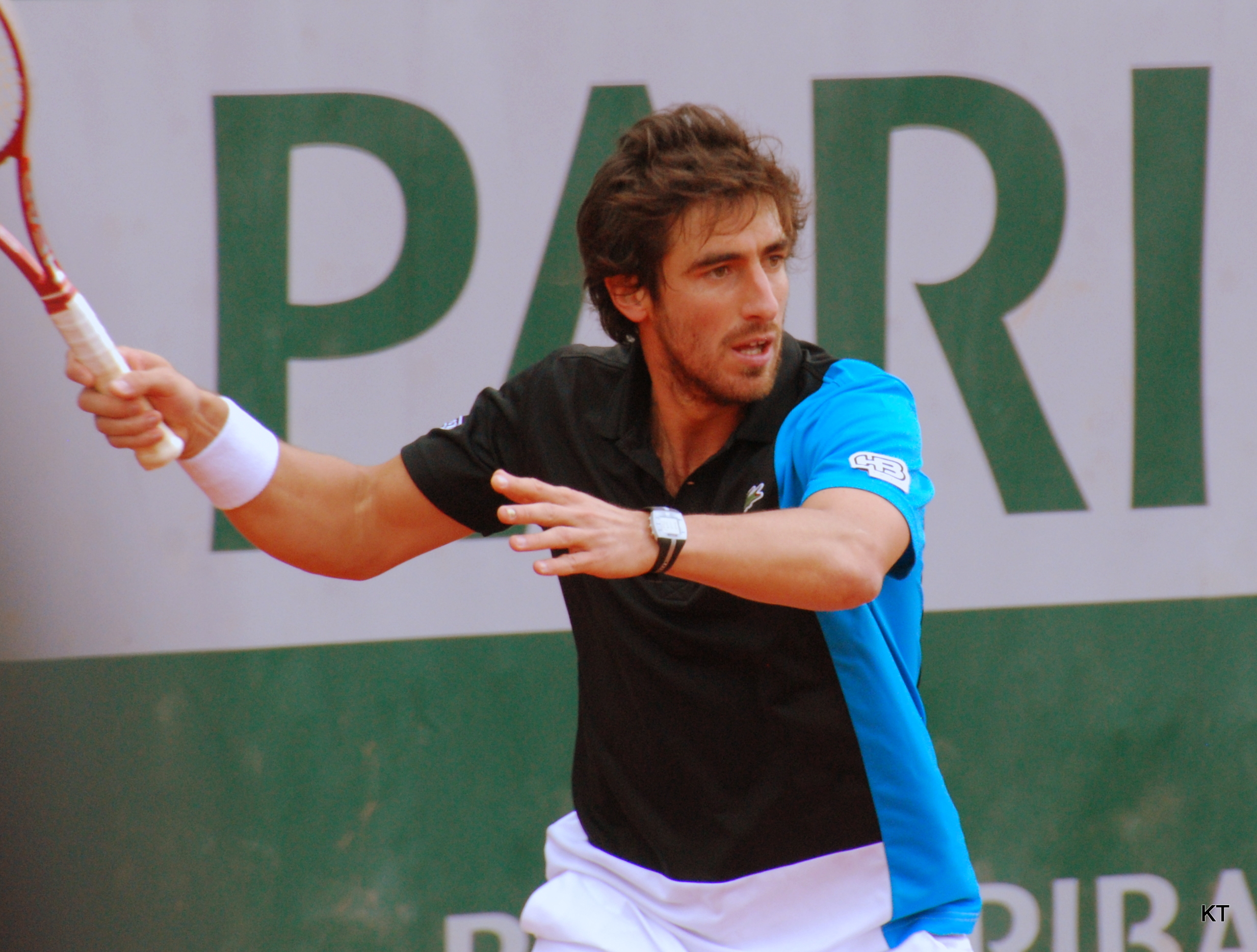 The comeback kid made his return to the tour after a long time out with injury.